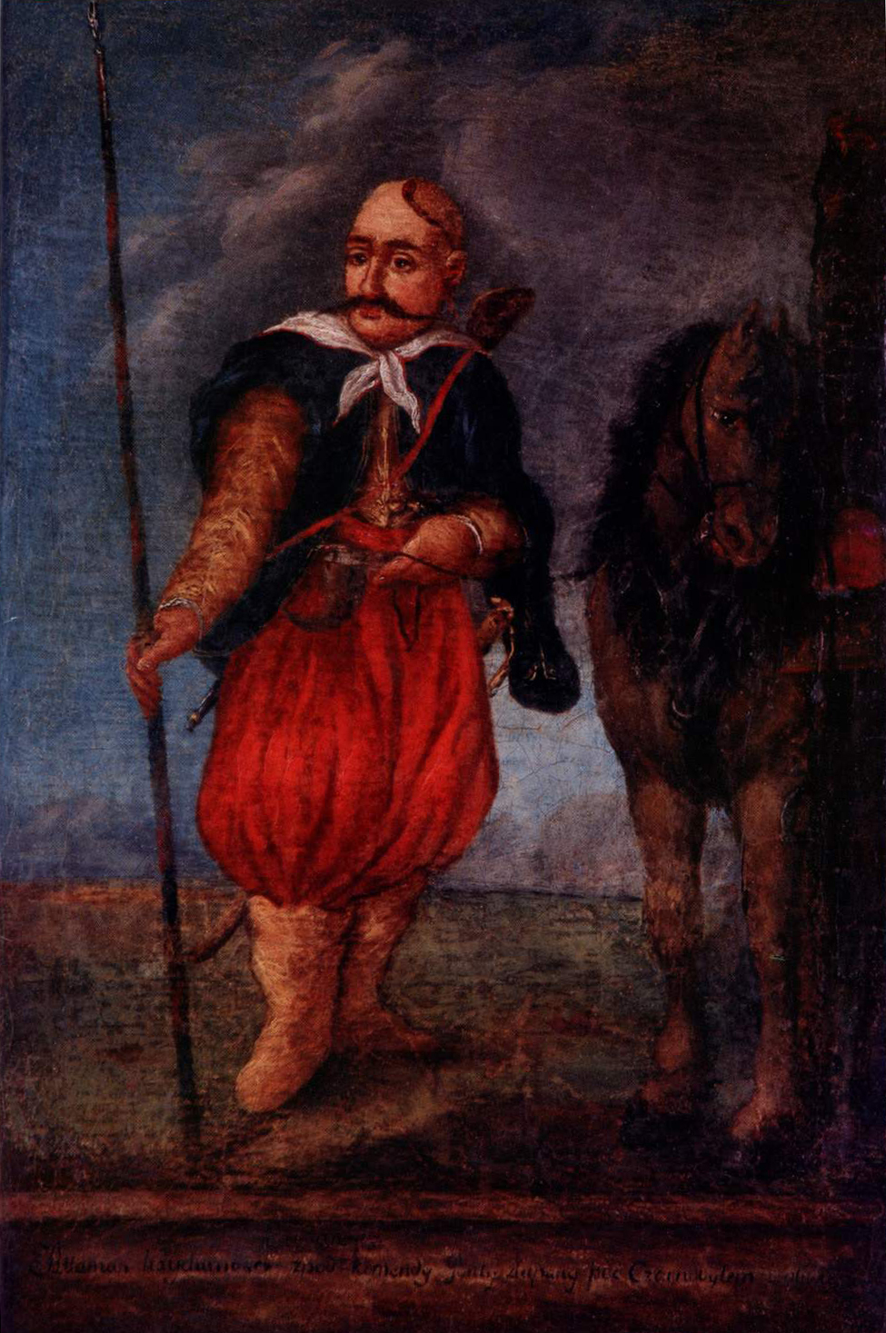 "Portrait of Ivan Bondarenko" - one of the leaders of the Koliyivschyna. The painting by an unknown artist. XVIII century